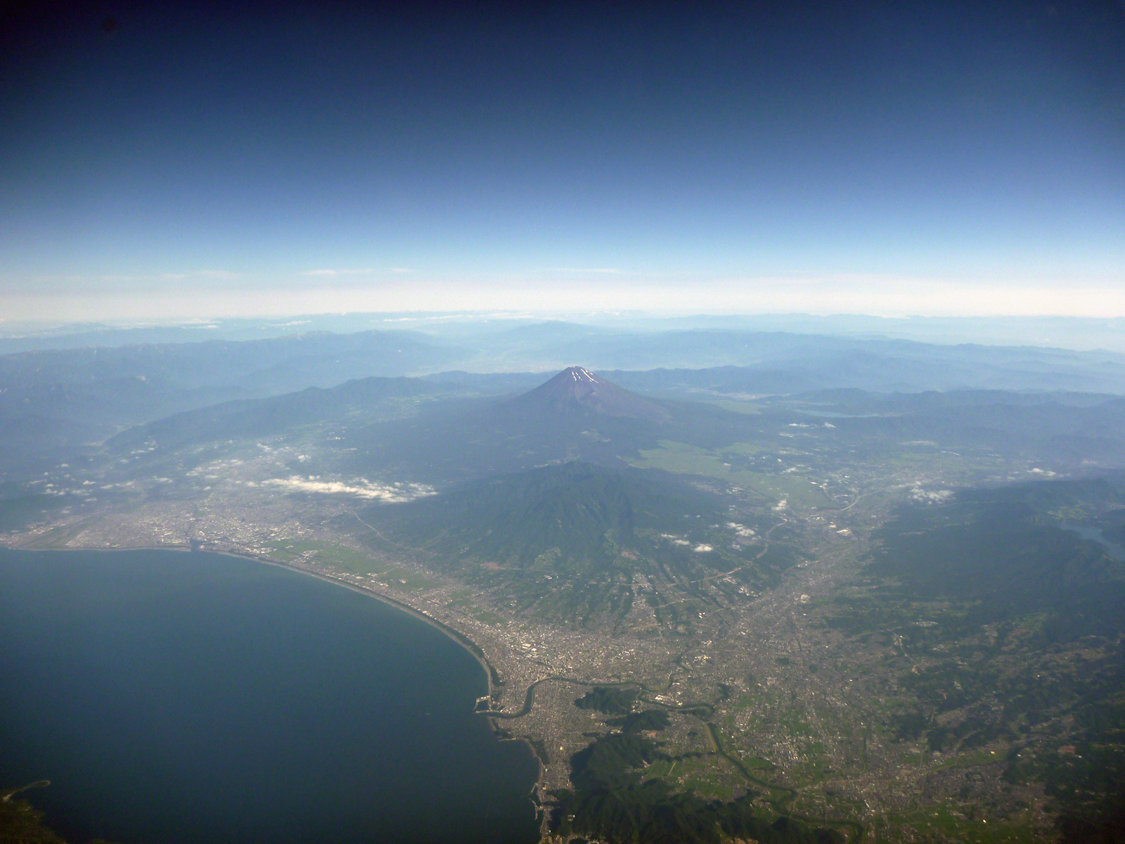 Mount Fuji and Mount Ashitaka as seen from the South in Honshu,Japan.